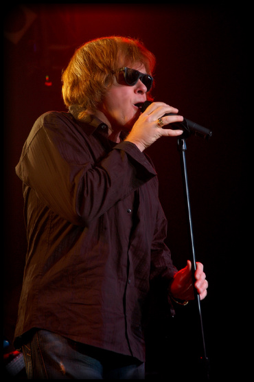 Eddie Money live at Boulder Station, Las Vegas